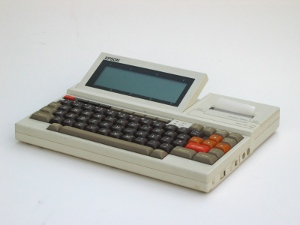 Epson PX-4 portable computer